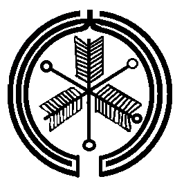 Omiya Shizuoka chapter